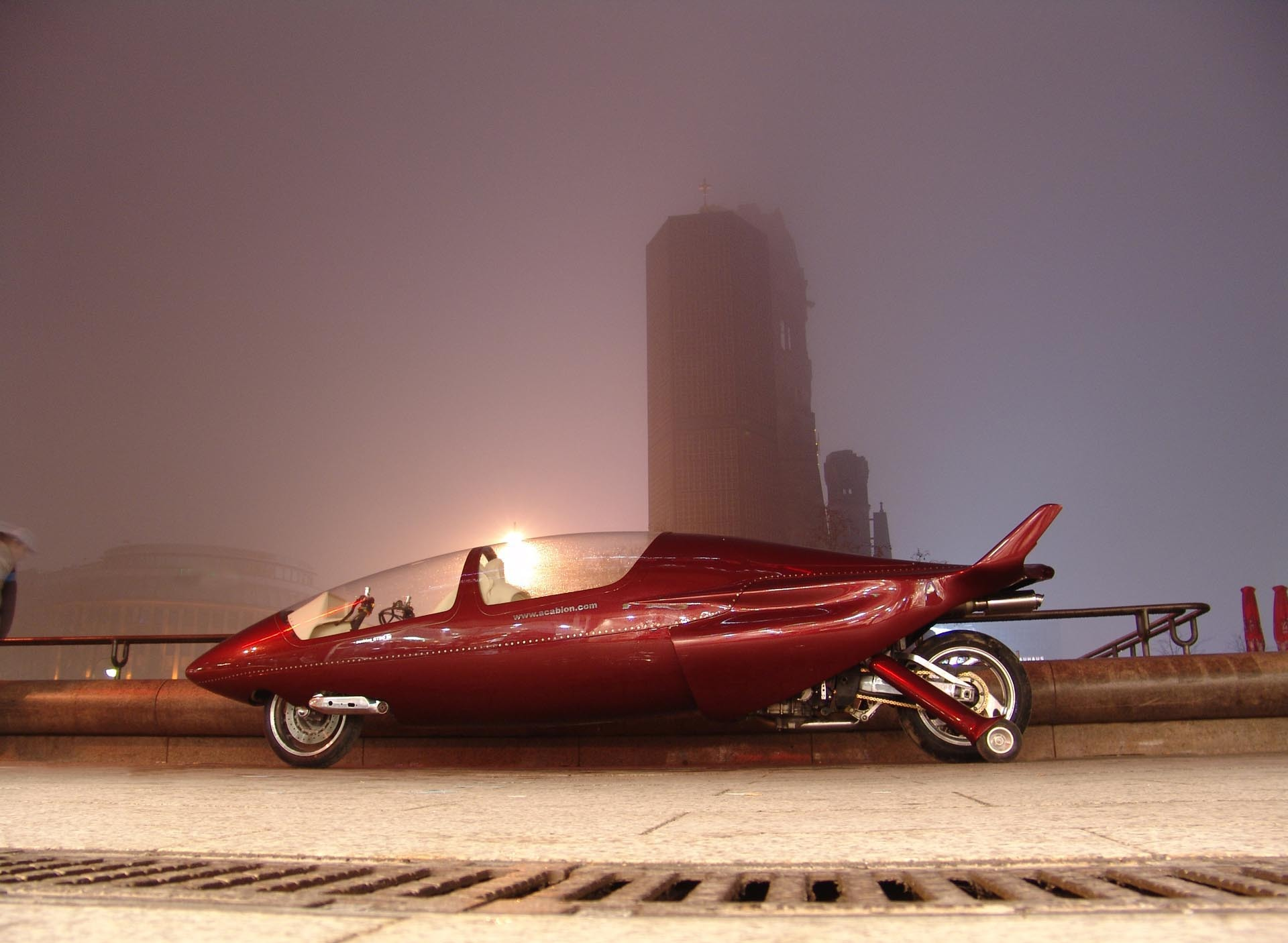 Authorized by the author, Dr. Peter Maskus, Acabion TM, Lucerne, Switzerland